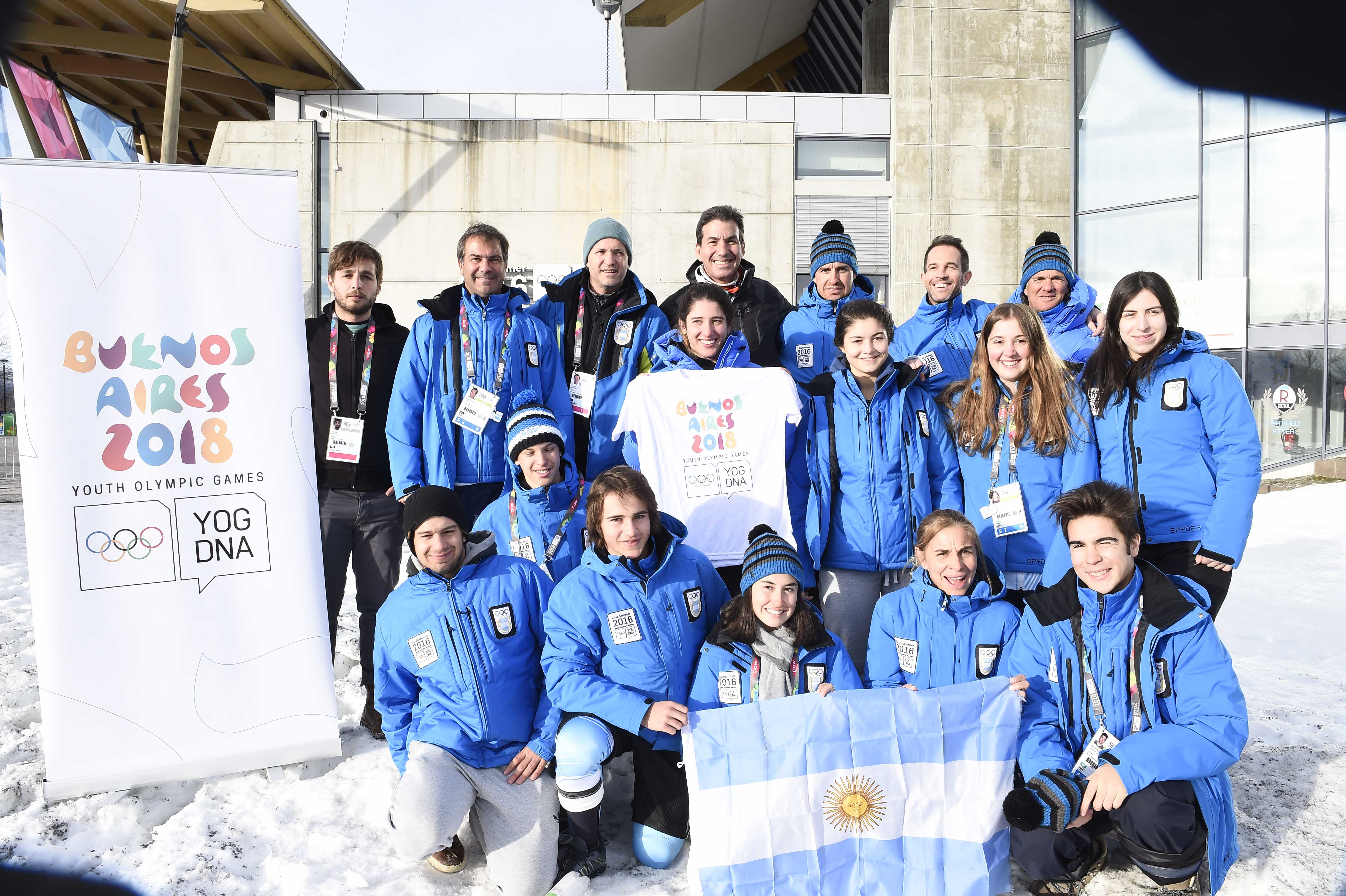 Members of the Buenos Aires Youth Olympic Games Organising Committee (BAYOGOC) alongside the Argentinean athletes of the 2016 Winter Youth Olympics.